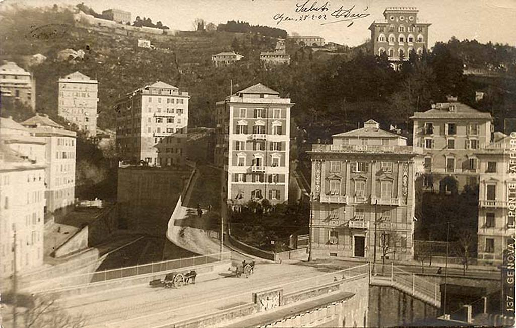 Ponte Caffaro Genoa 1900s